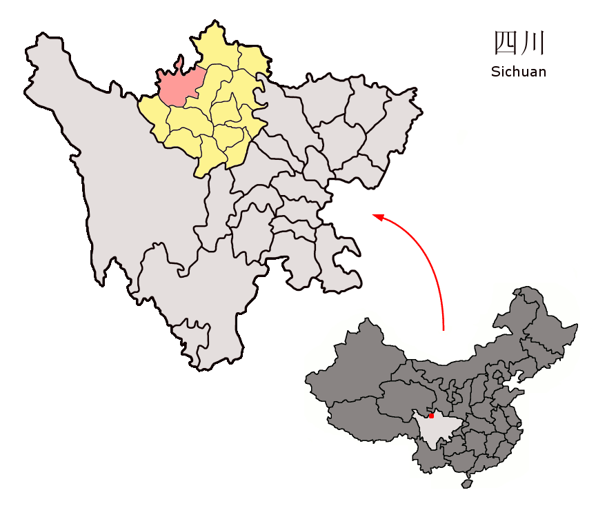 Location of Ngawa County (pink) and Ngawa Prefecture (yellow) within Sichuan province of China Map drawn in september 2007 using various sources, mainly : Sichuan province administrative regions GIS data: 1:1M, County level, 1990 Sichuan Counties map from